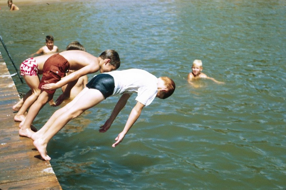 Boys jumping into water